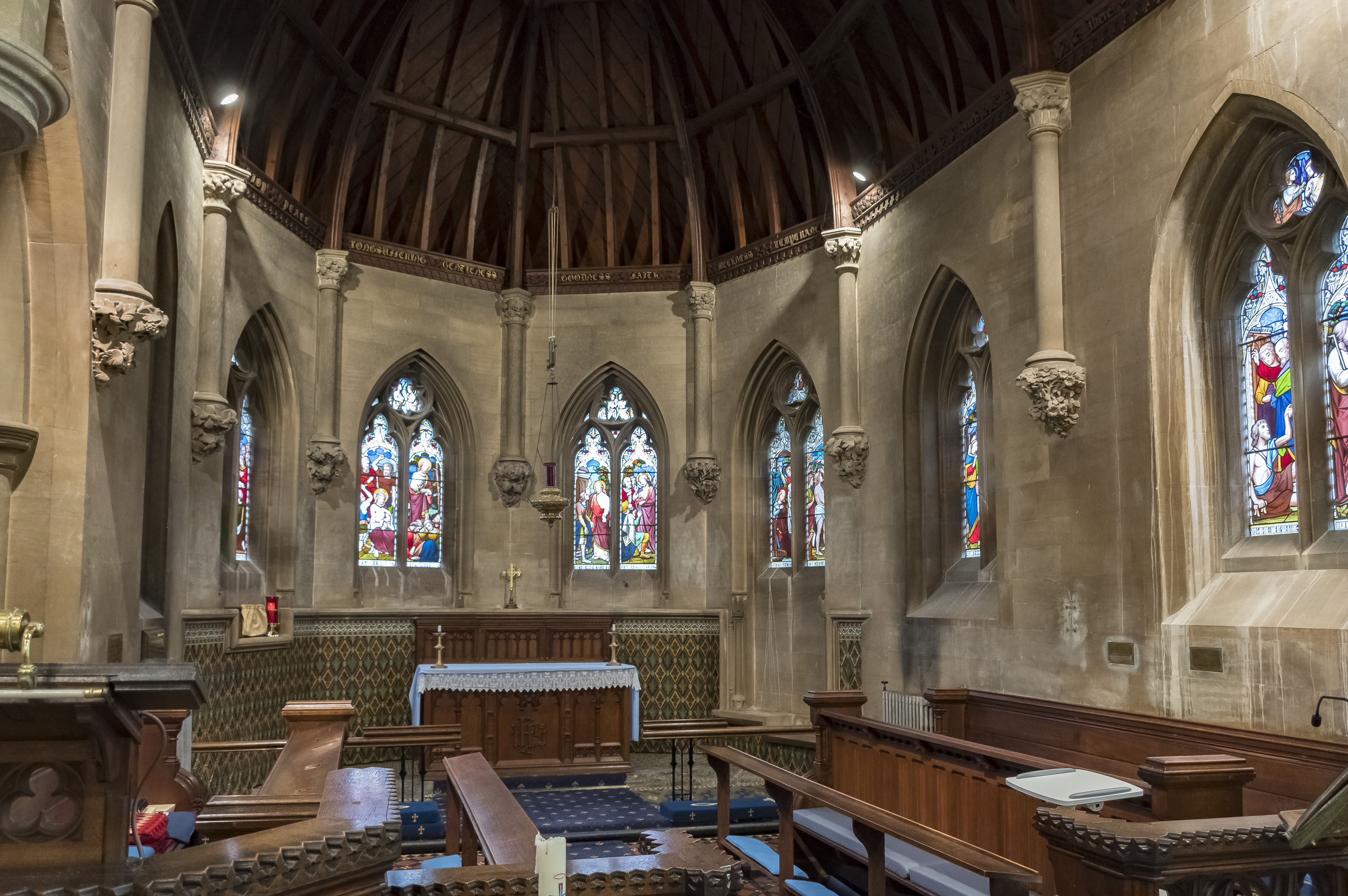 Grade II* listed The oldest part of the church dates from the early thirteenth century. The tower was added in the early fourteenth century when the south wall of the nave was rebuilt and enlarged. There is a nave with north aisle, chancel, western tower with spire, and north transept or chapel, now the organ chamber. The tower and spire are mid-fourteenth century. The spire has two-light lucarnes, and was restored in 1887. The nave has a three bay north aisle with round piers. It is possible that it was raised in the fourteenth century. It was rebuilt and enlarged in 1848. The south door is from the early fourteenth century with some fine carvings. The roof is 19th century with trussed rafters and curved braces. The chancel arch dates from around 1862, built in a thirteenth century style. The chancel was built in the mid nineteenth century, and has a polygonal apse with several two light stained glass windows. It has a richly tiled floor and dado. The builder was Charles Kirk the younger, and the external wall carries the dedication to Charles and Elizabeth Kirk in a frieze beneath the eaves. The polygonal font is from the fourteenth century. There are also two small piscinas in the nave from the same period. There are several stained-glass windows dating from the nineteenth and early twentieth century. There is a small two manual organ by Binns from 1929.